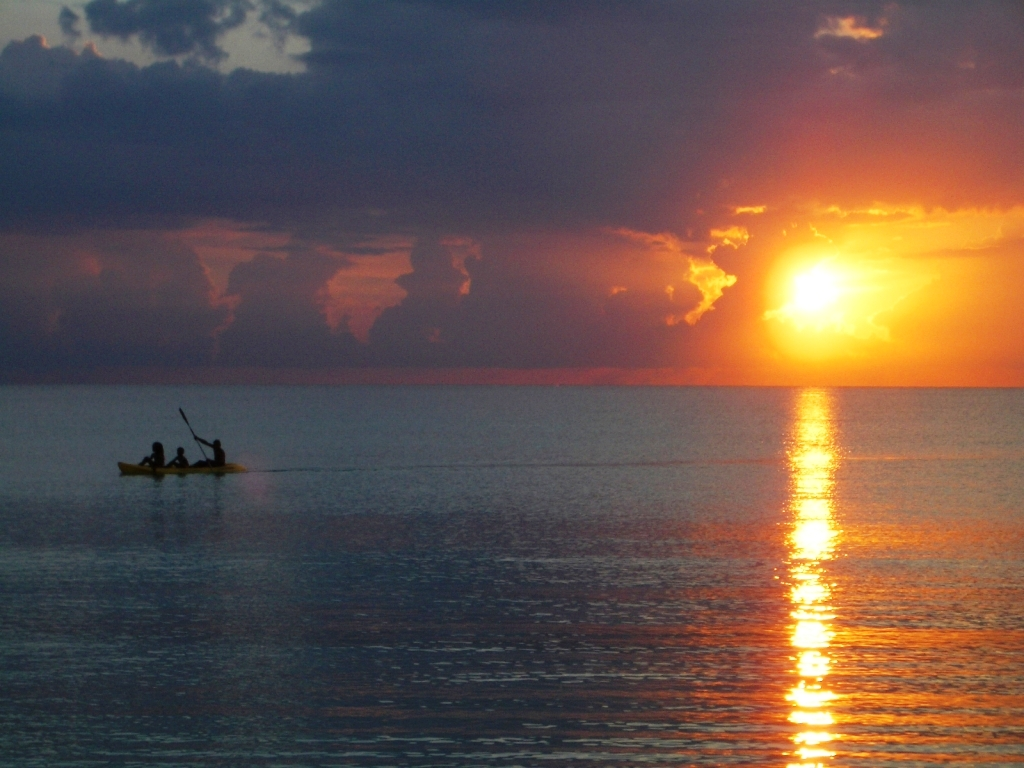 Sunset on the sea at Seven Mile Beach, Negril, Jamaica.